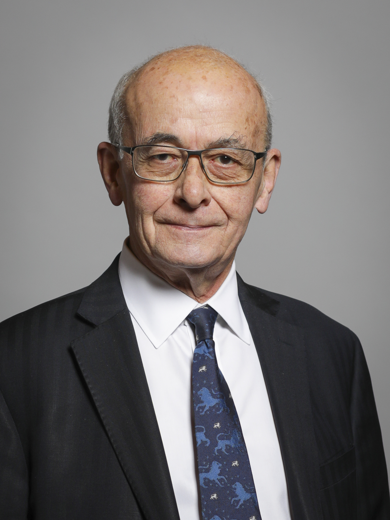 Official portrait of Lord Kerr of Kinlochard 3×4 portrait of Lord Kerr of Kinlochard